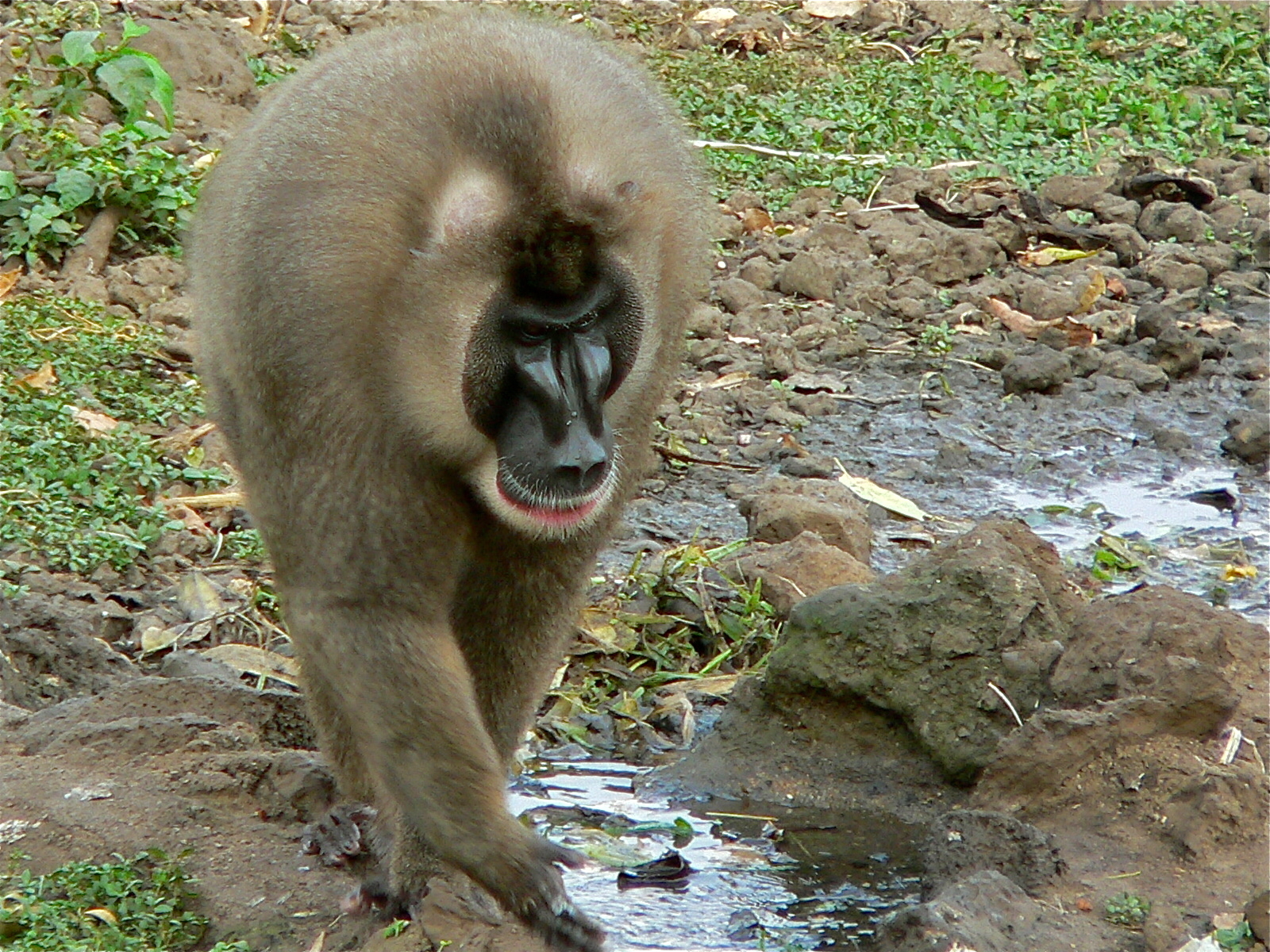 Limbe Wildlife Center, CAMEROON